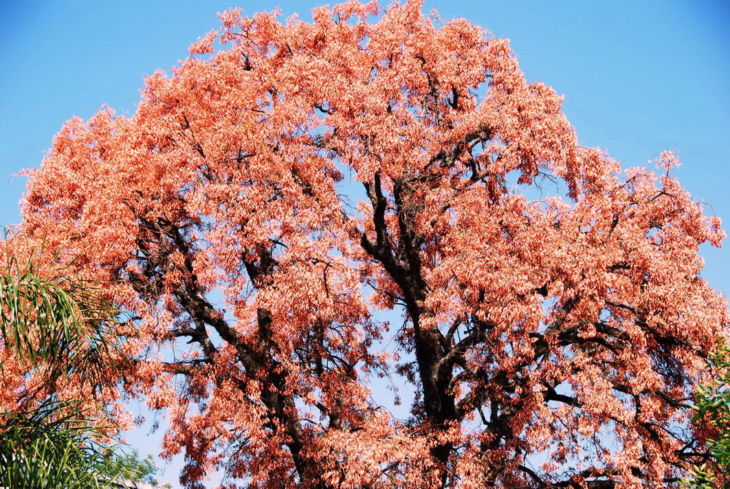 Erythrina dominguezii in bloom. Goya, Corrientes Province, Argentina.